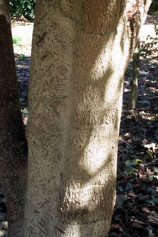 Endiandra virens bark, RBG Sydney